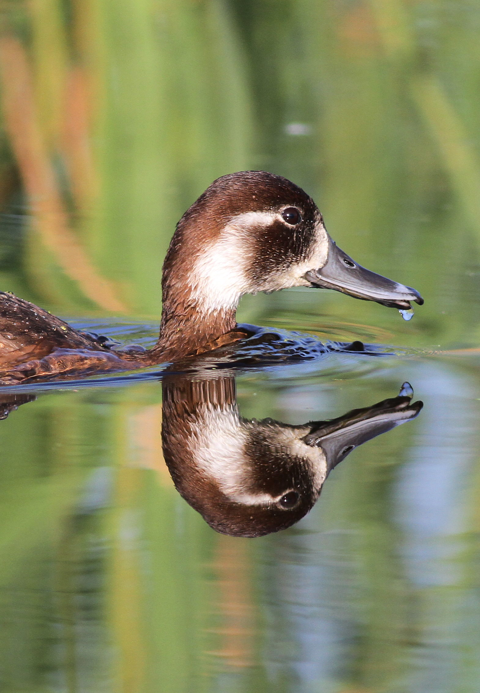 Southern Pochard, Netta erythrophthalma, at Marievale Nature Reserve, Gauteng, South Africa